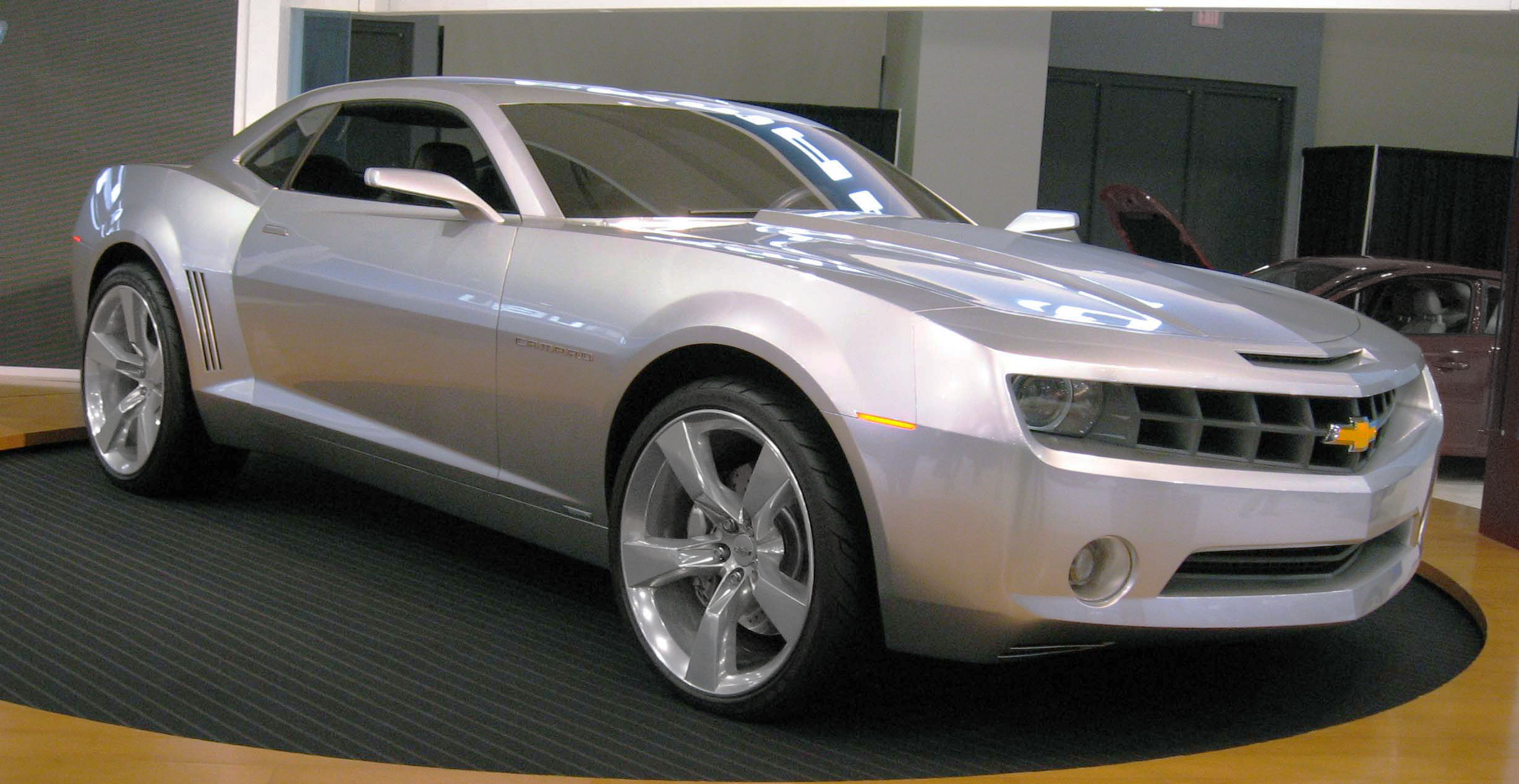 2006 Chevrolet Camaro Concept photographed at the Washington Auto Show. Derivative of original work.